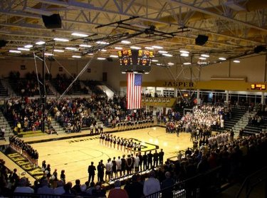 JHS New Gymnasium